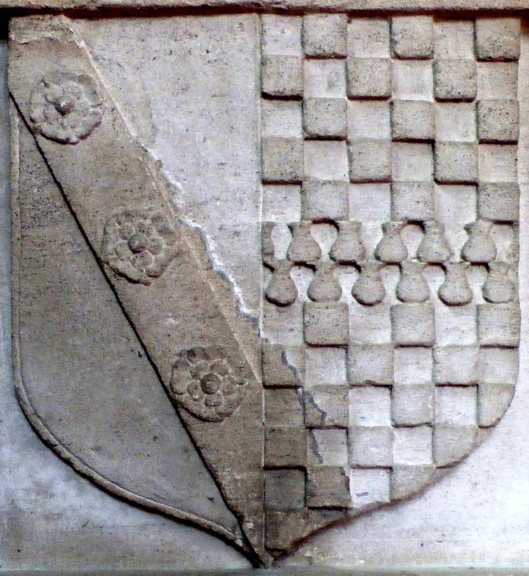 Detail from monument to Robert Cary (d.1586) of Clovelly, Devon. South wall of chancel, All Saints Church, Clovelly. On the base of the north side are shown two relief sculpted heraldic escutcheons, this one showing Cary impaling Chequy argent and sable, a fess vairy argent and gules[1] (Fulkeram, for his father Robert II Cary (d.1540), of Cockington and Clovelly, by his third wife Margaret Fulkeram (d.1547), daughter and heiress of William Fulkeram of Dartmouth, Devon)